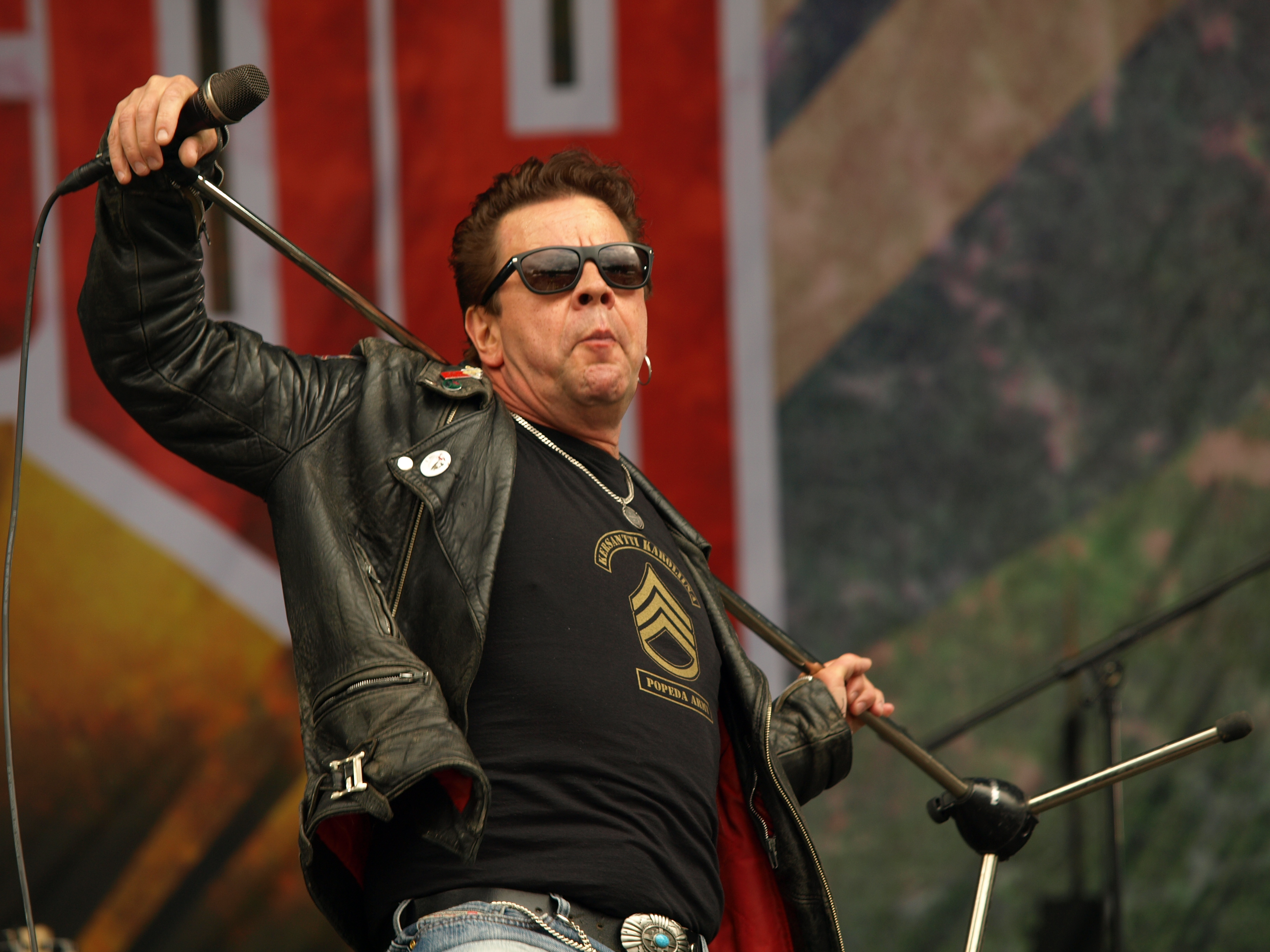 Finnish band Popeda at Provinssirock 2013